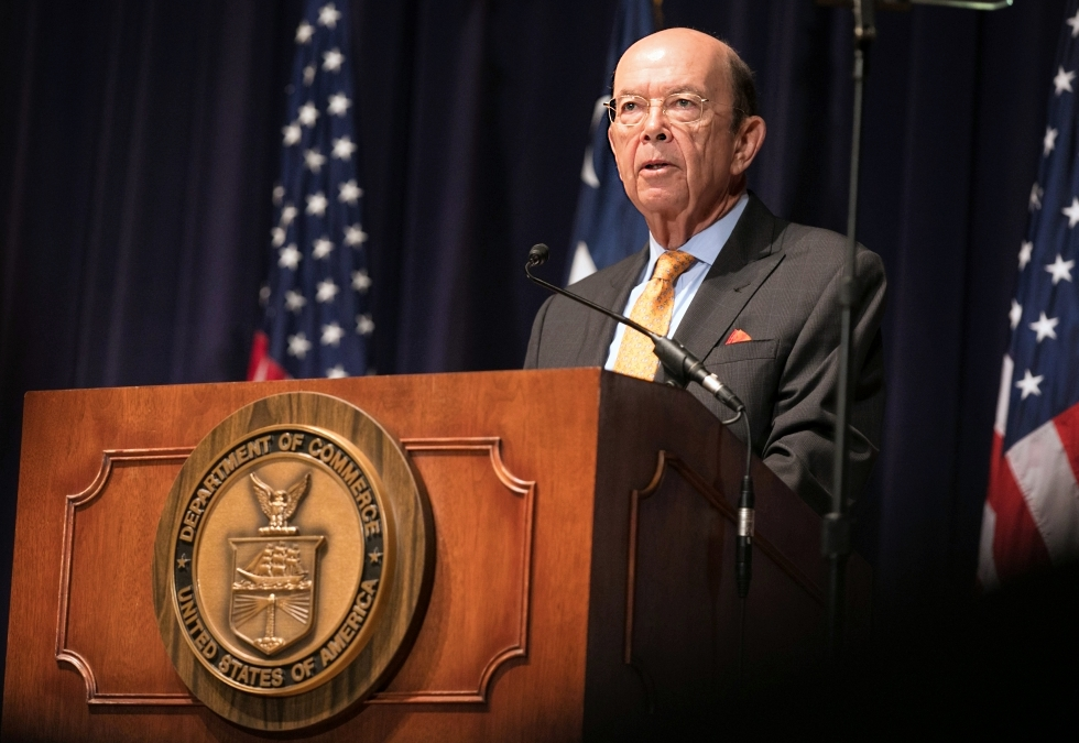 Assumed office on February 28, 2017